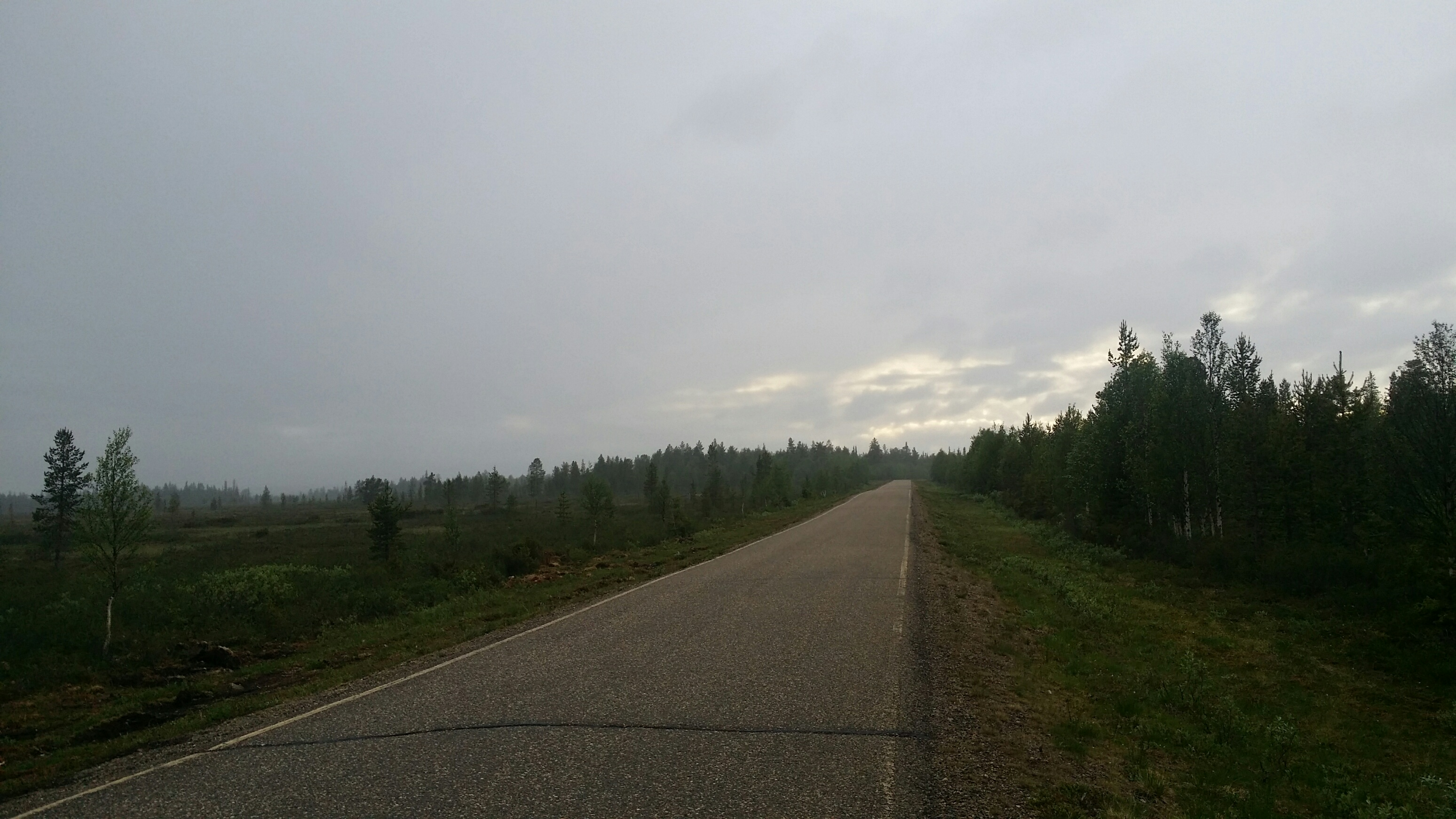 The road 955 between Pokka and Ivalojokki.